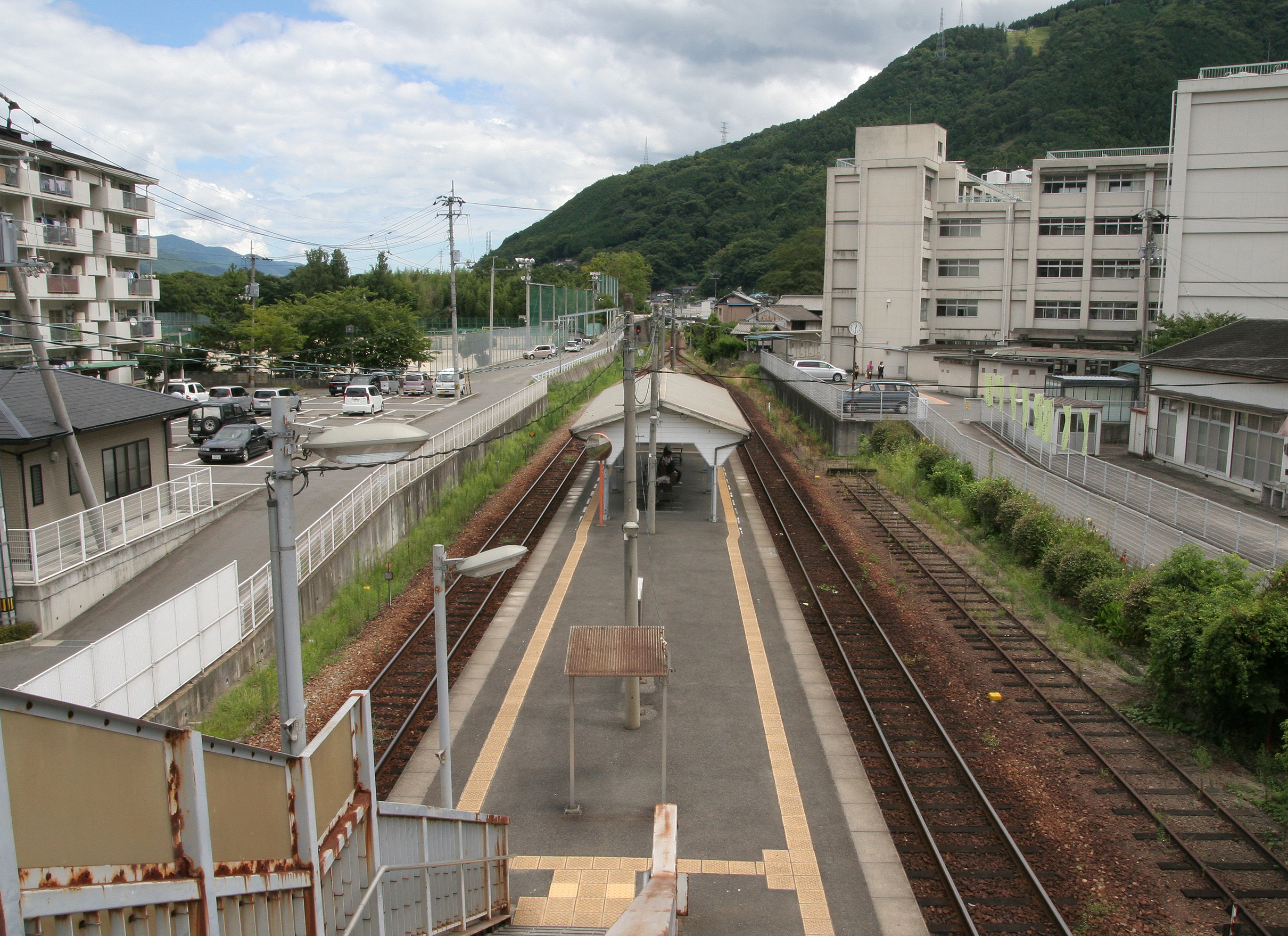 Shikoku Railway Tokushima Line tsuji Station enclosure